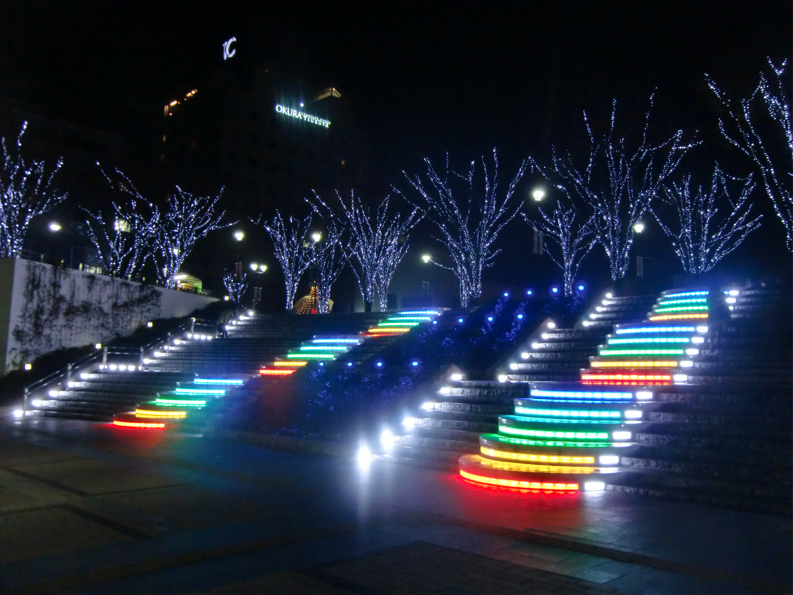 Illumination of Tsukuba Center in Azuma 1-chome, Tsukuba city, Ibaraki prefecture, Japan.